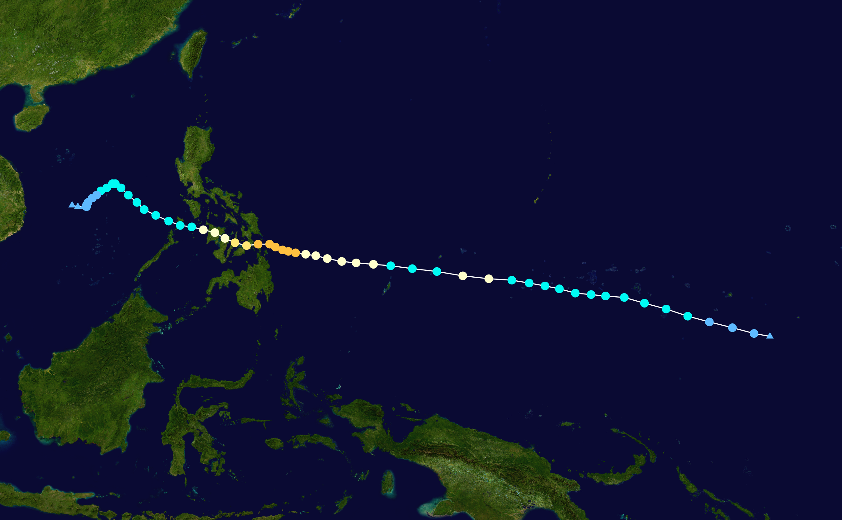 Typhoon Nelson 1982 track. Uses the color scheme from the Saffir-Simpson Hurricane Scale.